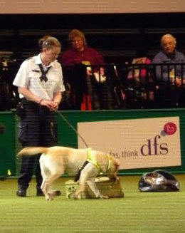 Tyke shows off his skills at Crufts Four year old Tyke takes part in a parade of former Battersea Dogs Home residents who are now doing valuable work with other organisations. Tyke works for the UK Border Agency, sniffing out illegal imports of meat, fish and dairy products.